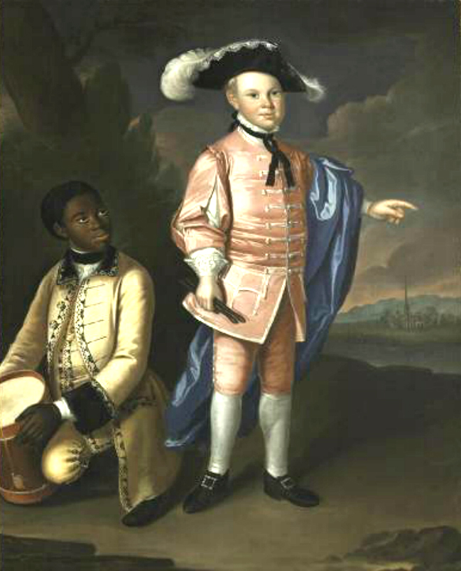 Charles Calvert and his Slave by John Hesselius 1728-1778, 1761